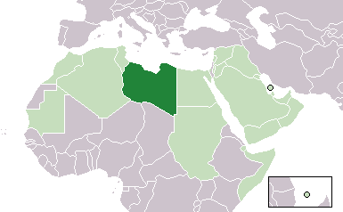 Map of Libya, Arab States.